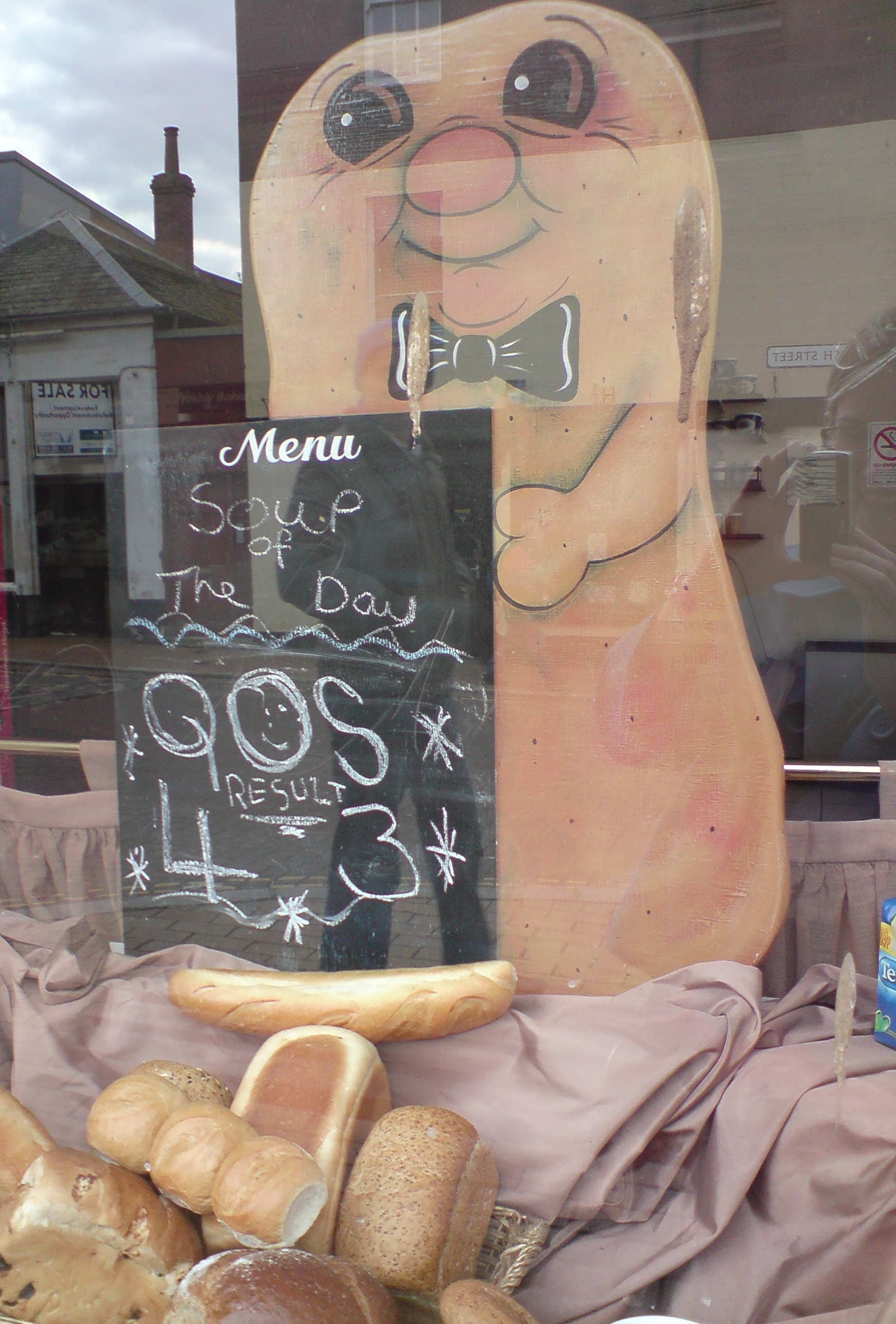 Baker's shop window in Friar's Vennel, Dumfries, reporting the cup semi final full time score.